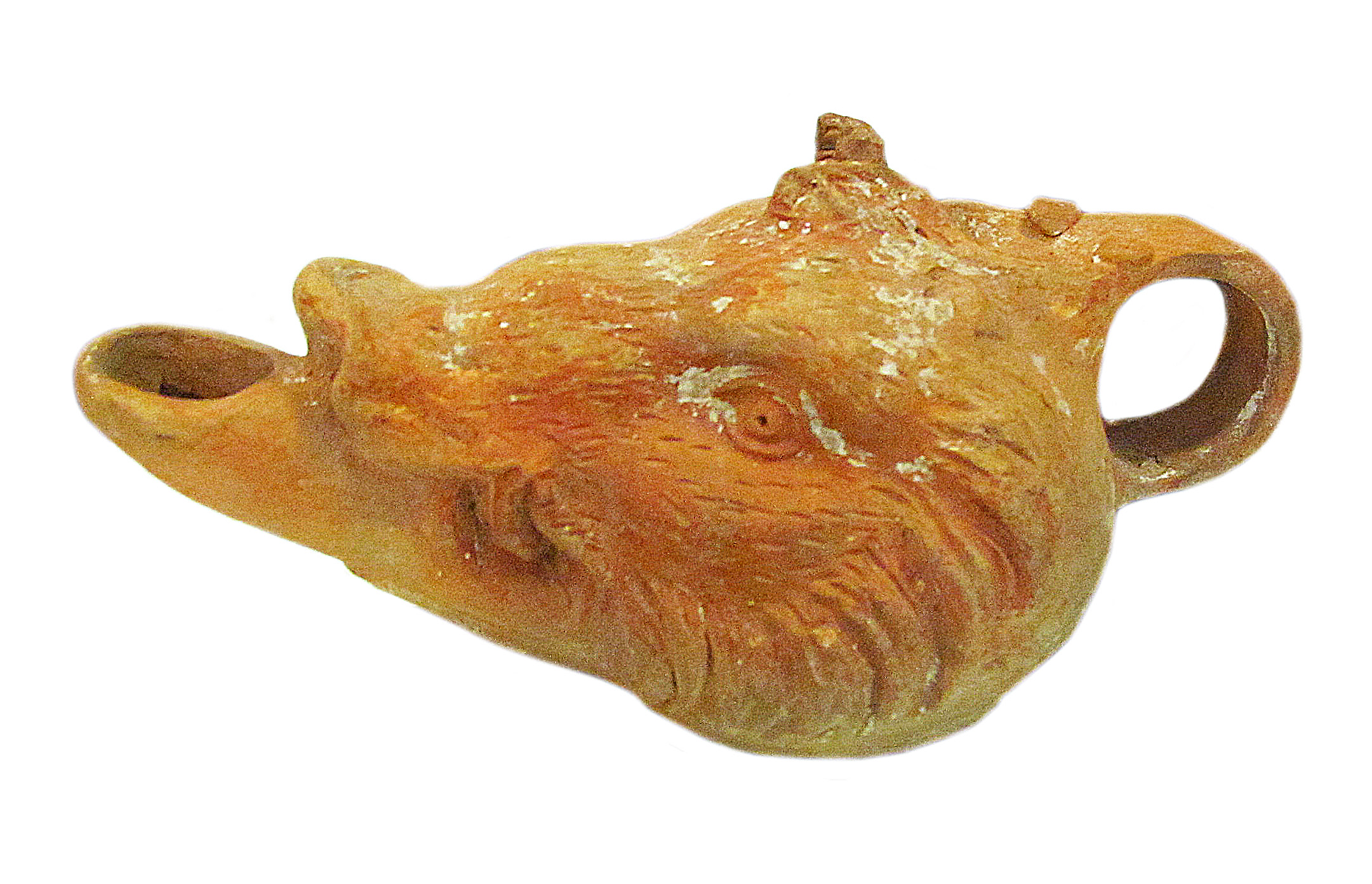 Roman oil lamp in form of boar's head.